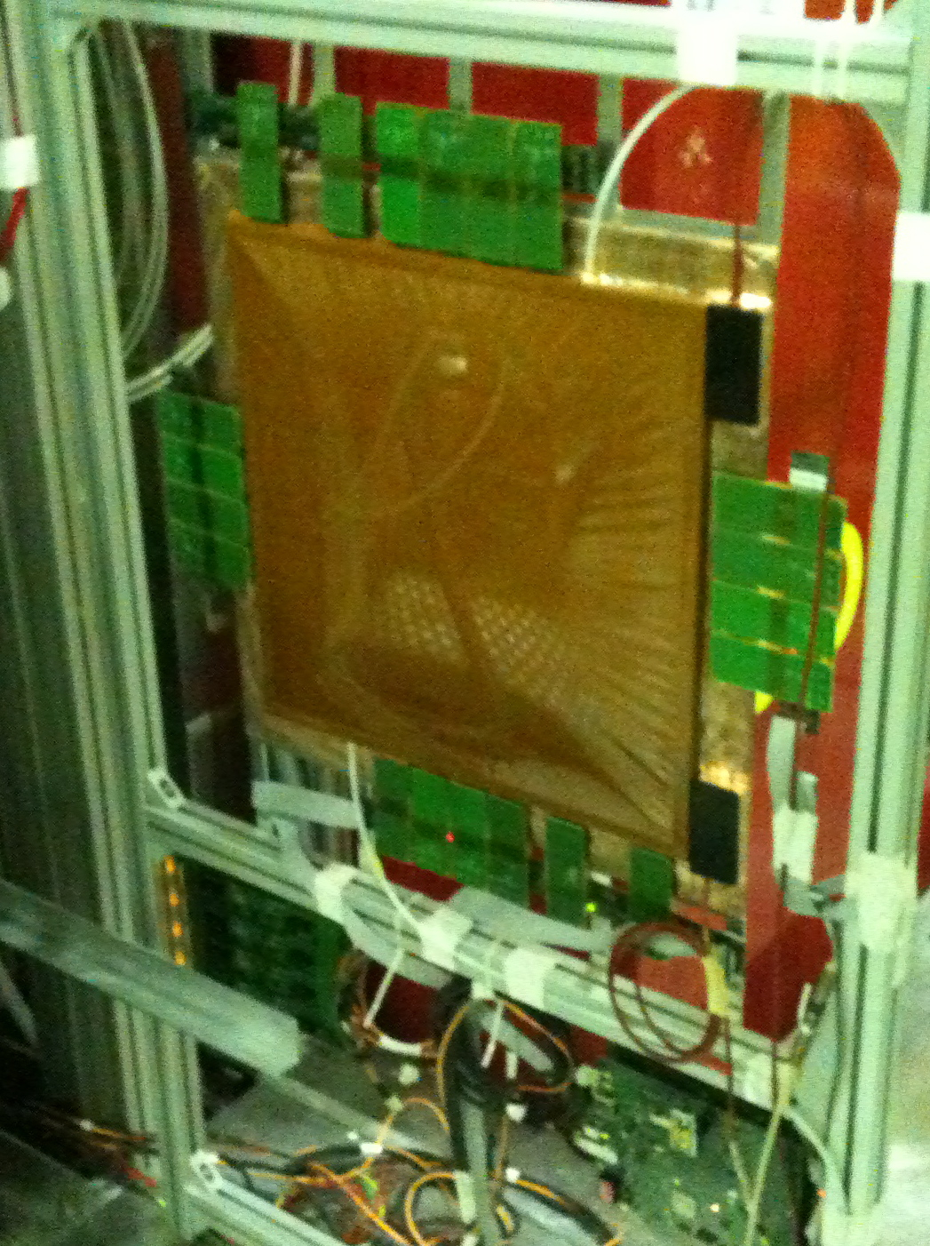 The pixel micromegas prototype on the COMPASS experiment at CERN build at CEA Saclay, IRFU.